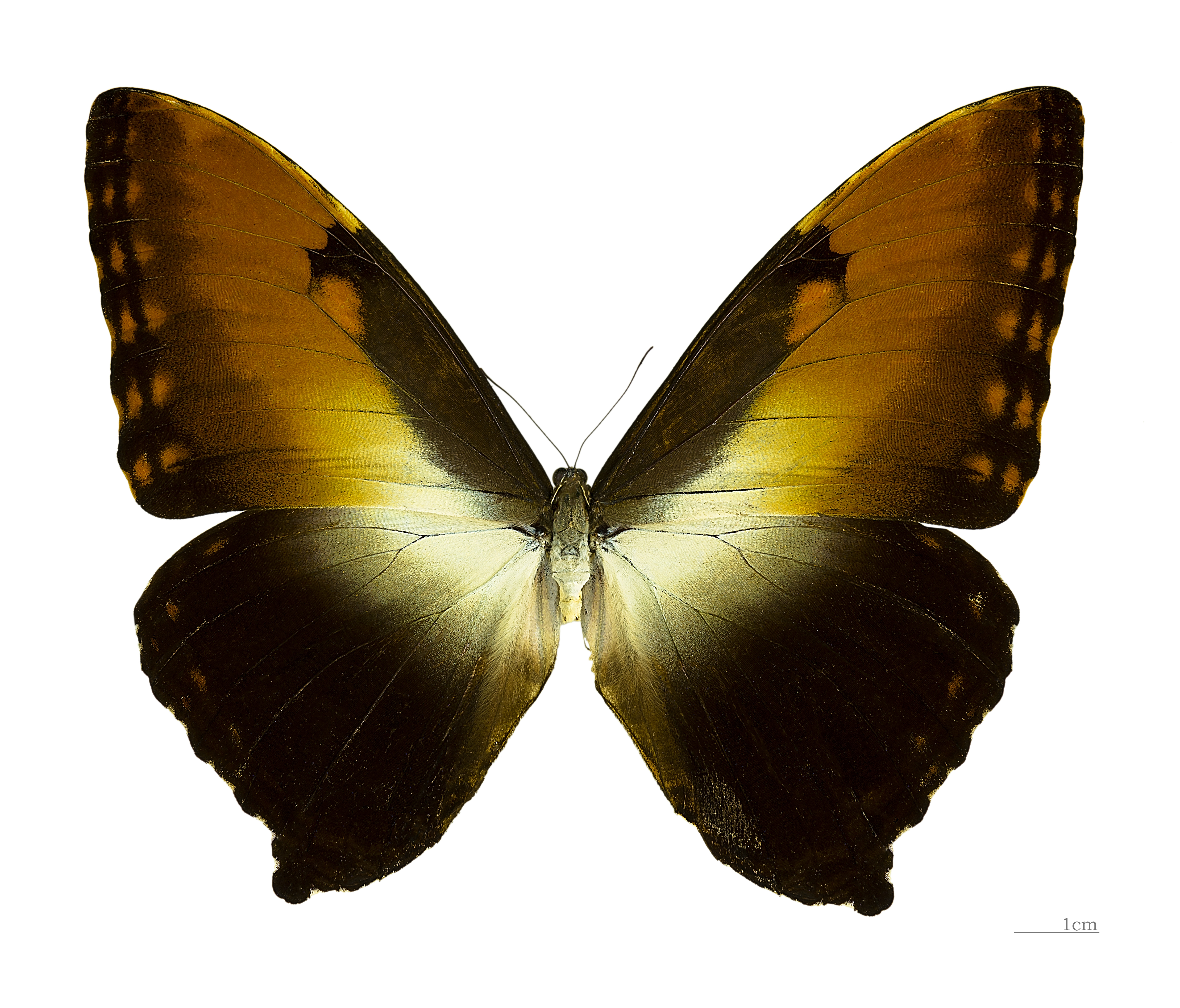 Sunset Morpho - Dorsal side